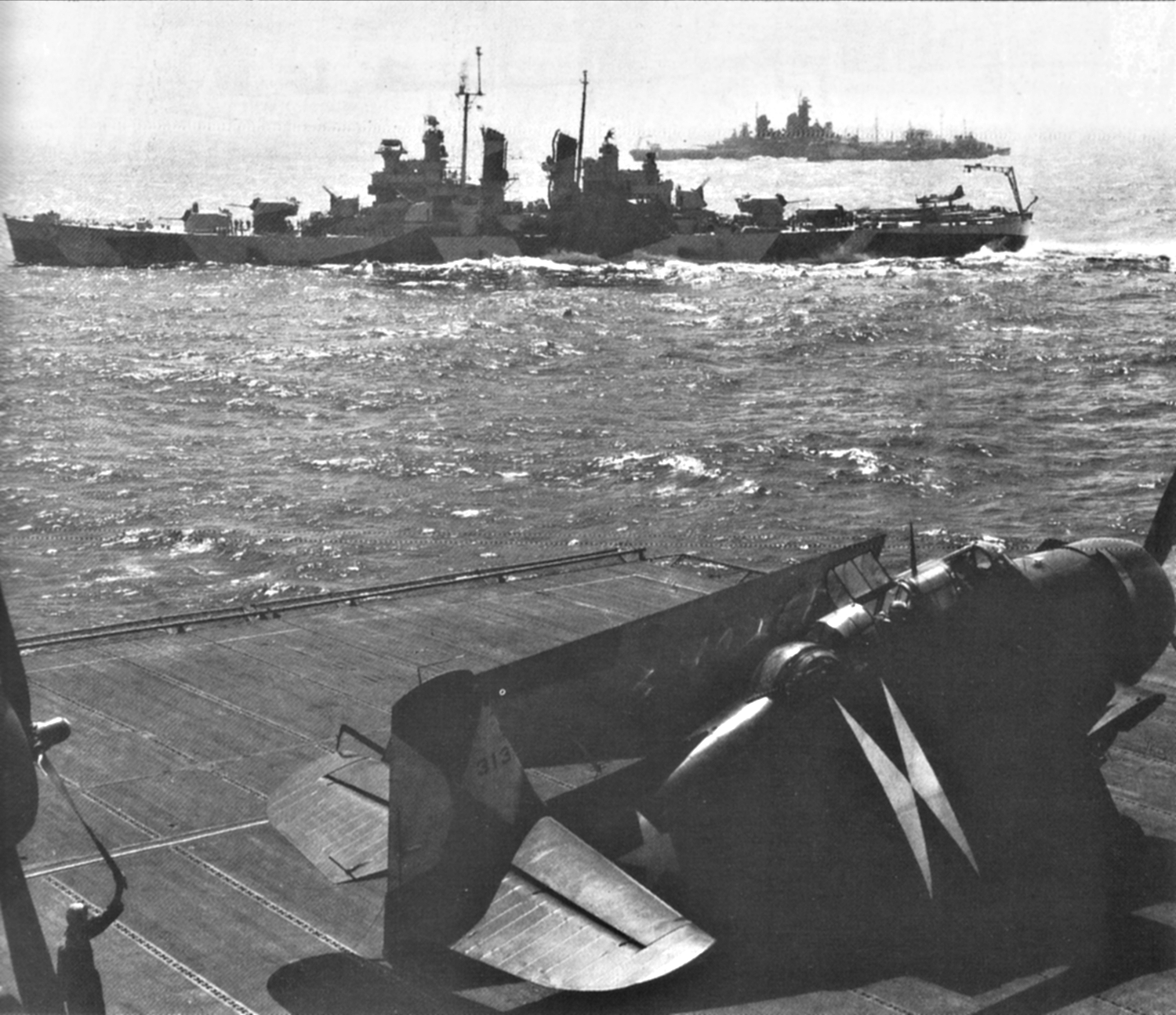 USS Wilkes-Barre (CL-103) operating off Okinawa in July 1945. Photographed from on board USS Essex (CV-9), with a TBF aircraft parked in the foreground. Port broadside surface view, looking into the sun, with Wilkes-Barre essentially seen in silhouette.